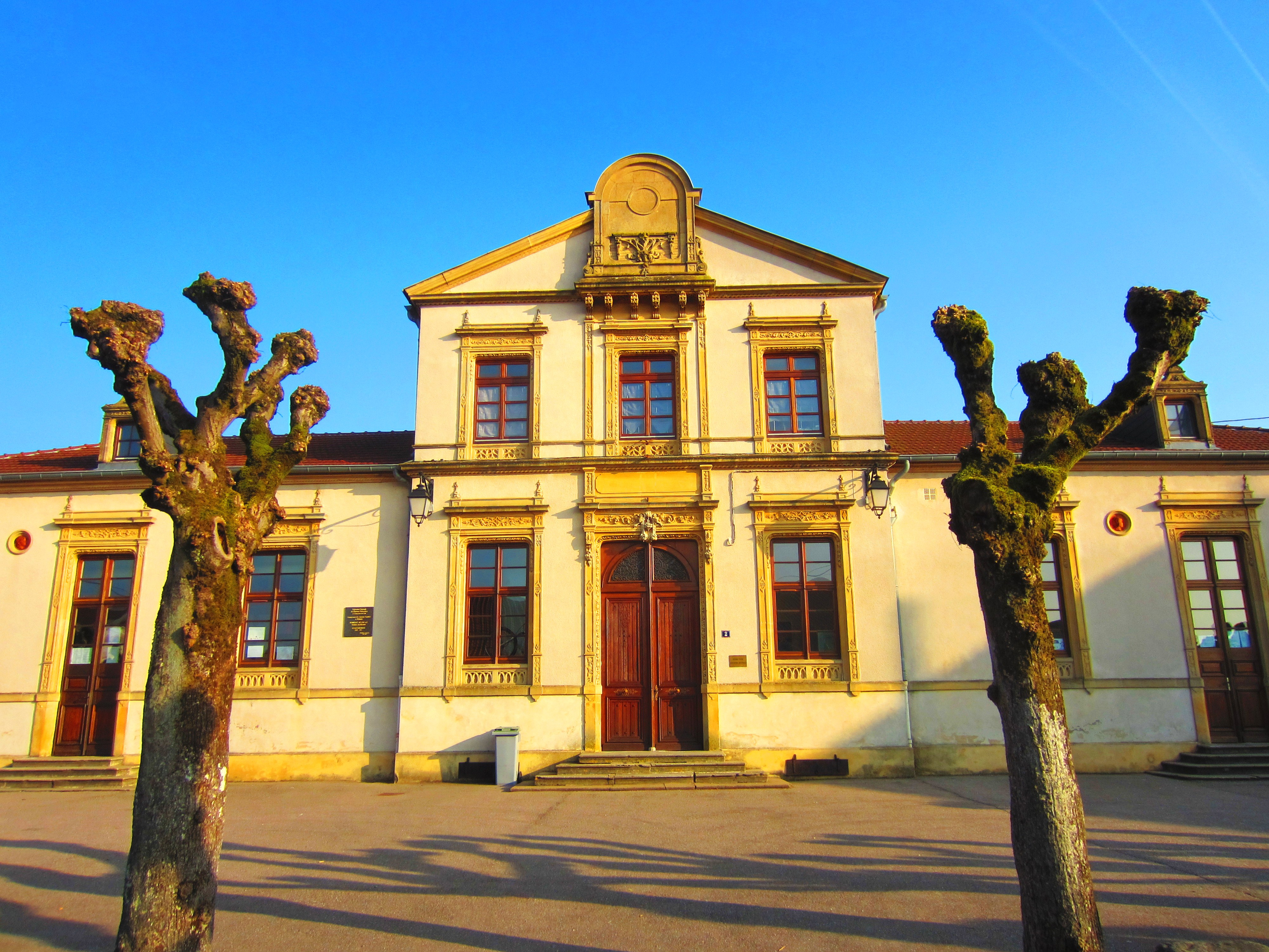 Remilly school